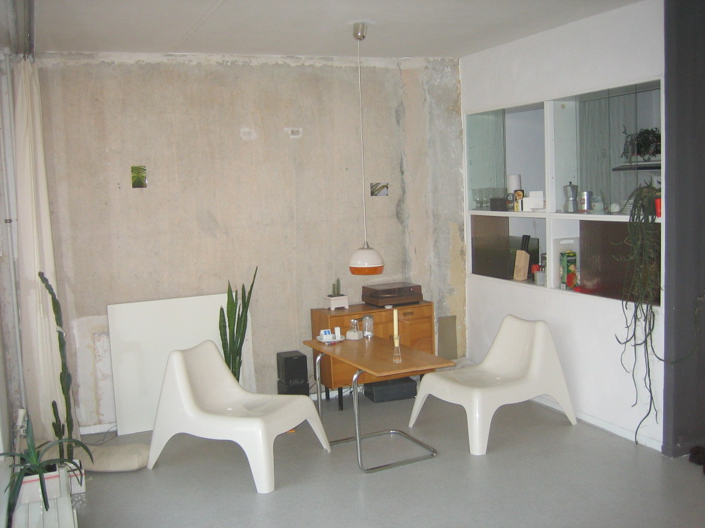 Plattenbau P2 at Spandauer Str. in Berlin-Mitte